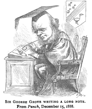 Caricature of George Grove as head of the Royal College of Music.